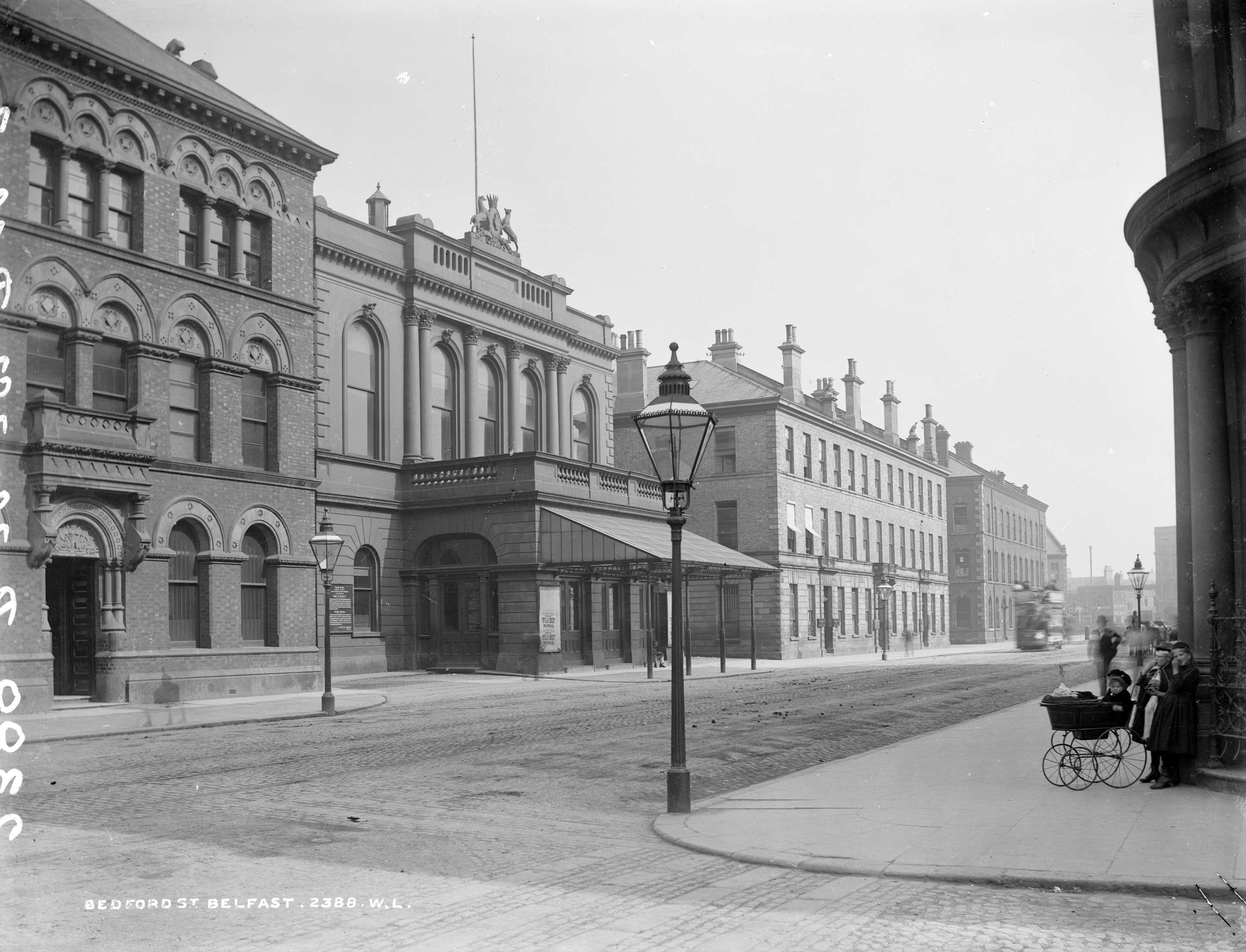 Love this one for the gorgeous ghostly tram moving along Bedford Street in Belfast, and if that child conveying device at the right isn't a perambulator, I don't know what is... The building on the left with the impressive canopy is actually the Ulster Hall, and the notice outside may make it slightly easier to date this one: "Monday. Popular Concert Postponed". Fantastic building identification by Gerry Ward: "What is amazing about this photograph (amazing by Belfast standards) is that all buildings shown are still extant! On the left is Bryson House (1865) by WJ Barre, a former linen warehouse, next is the Ulster Hall (1862) also by WJ Barre. The cast iron verandah was added by WH Lynn in 1882, but was removed following severe bomb damage in 1992. Further along is the Workman Warehouse (c1865). This building was badly damaged in a 1975 bomb blast, but was repaired and is now rendered. Then there is a warehouse (1870) which is triangular and has elevations on Clarence Street, Linenhall Street West and Bedford Street. On the right of the photo, where the children are standing, as Niall rightly identifies, is Ewart's Warehouse (1869) by James Hamilton." Date: Circa 1890?? NLI Ref.: L_ROY_02388